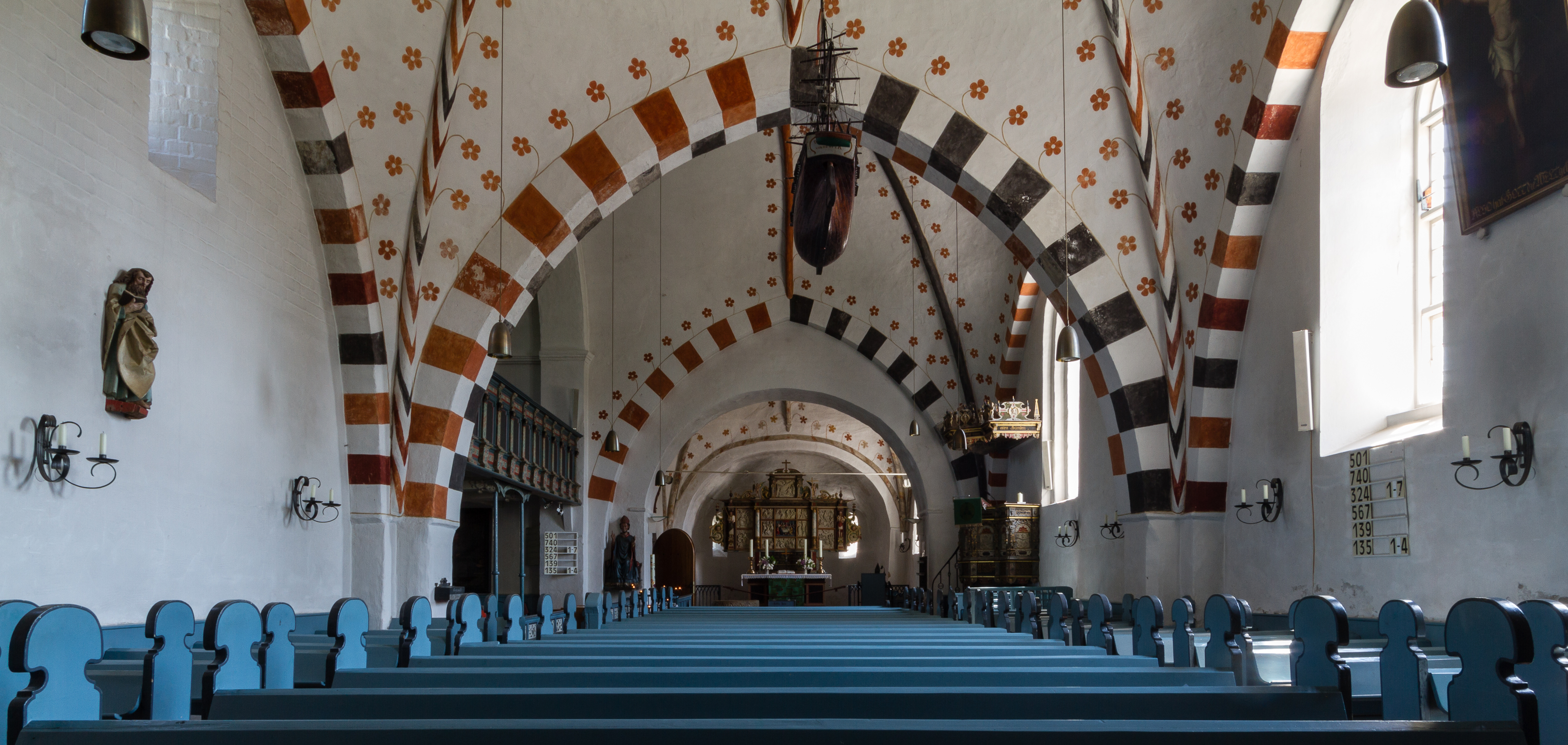 Designation: Church St. Nicolai with equipment Location: Kirchweg Place: Wyk-Boldixum, Collective municipality Föhr-Amrum, District Nordfriesland, Schleswig-Holstein, Federal Republic of Germany Construction time: 13th century Description: Romanesque church building with gothic and baroque extensions Object identification: 1510